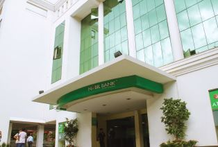 Nabil Bank